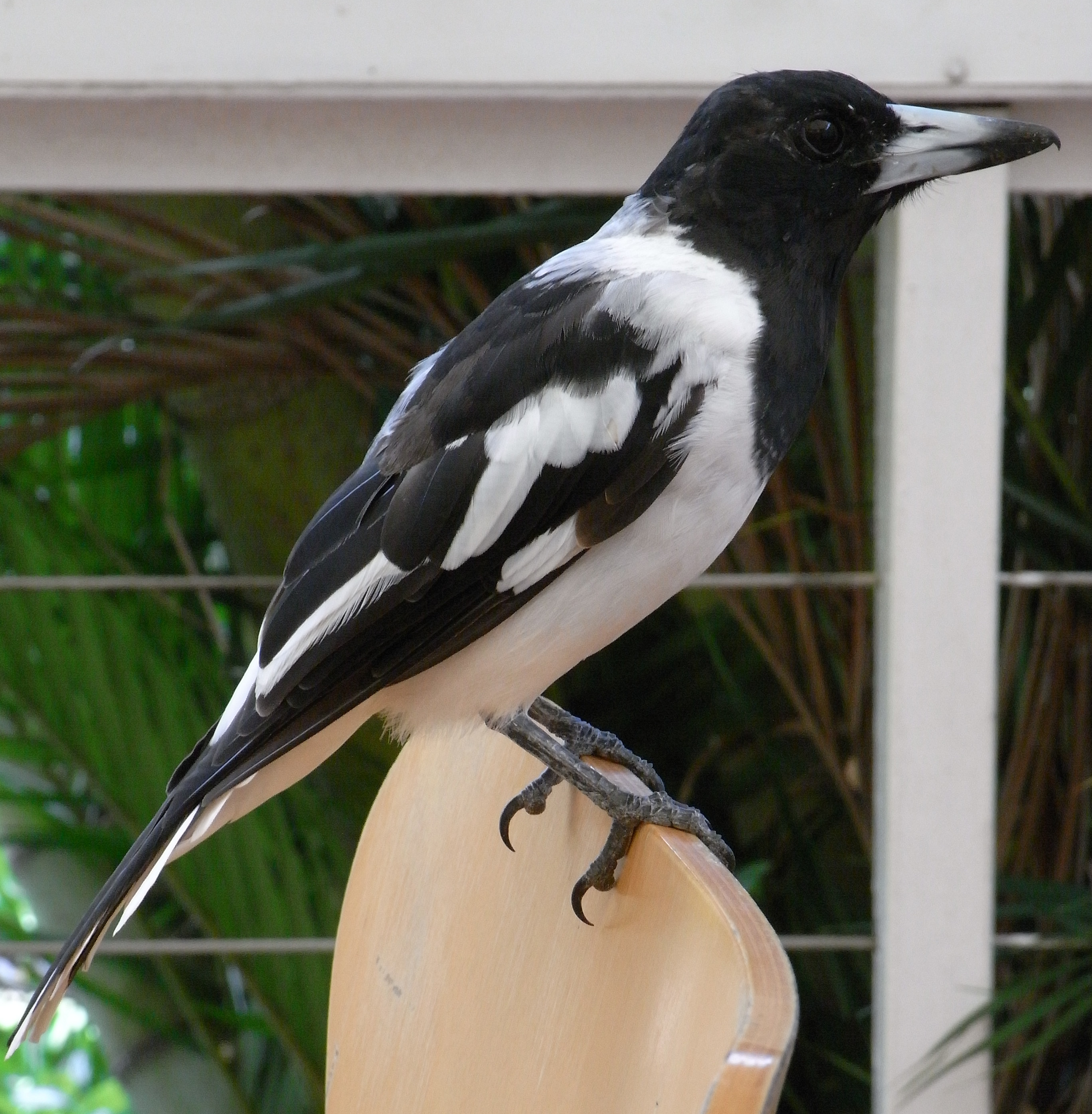 Male Pied Butcherbird (Cracticus nigrogularis) at the cafe in the Brisbane Botanical Gardens at Mount Coot-tha, Brisbane, Australia.